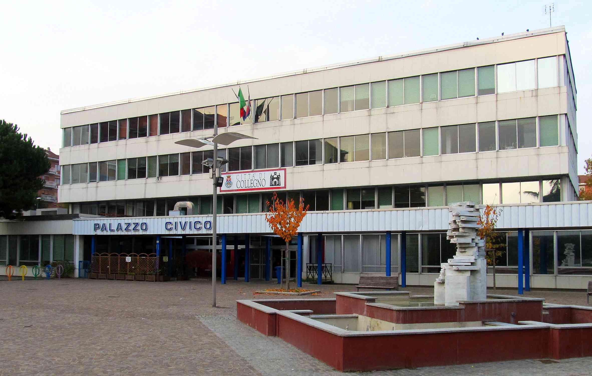 Colegno (TO, Italy): town hall